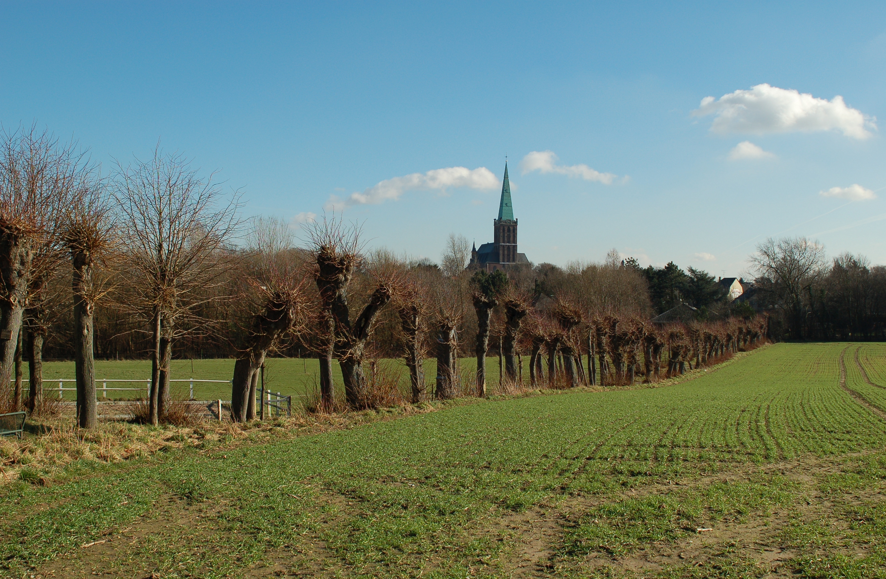 Allee of lime tree, pollarded, in Heinsberg, Rhineland